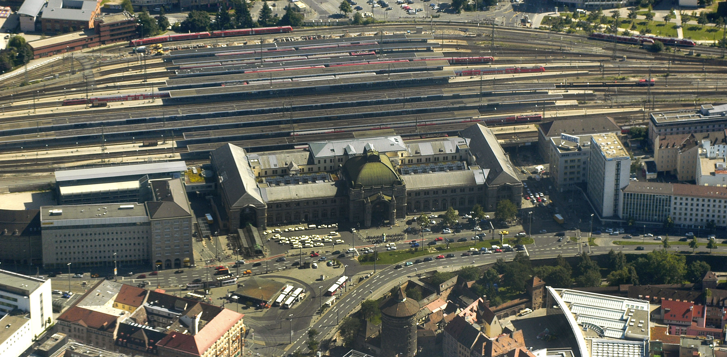 Aerial photo of the main station in Nuremberg, Germany